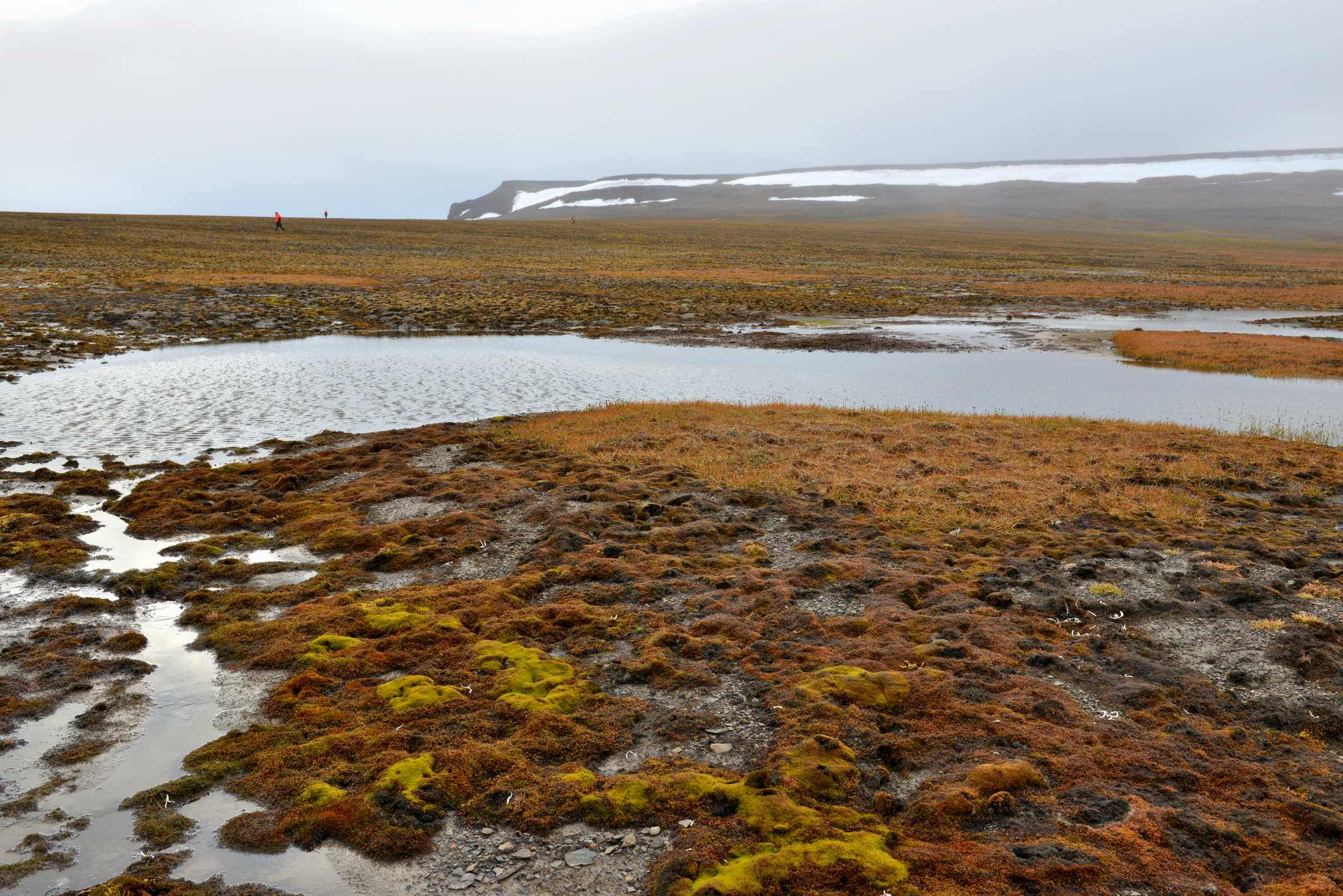 Bennett Island, north coast (De Long Islands - New Siberian Islands, Russia; 76°44‘30‘‘N, 149°21‘19‘‘E); tundra landscape